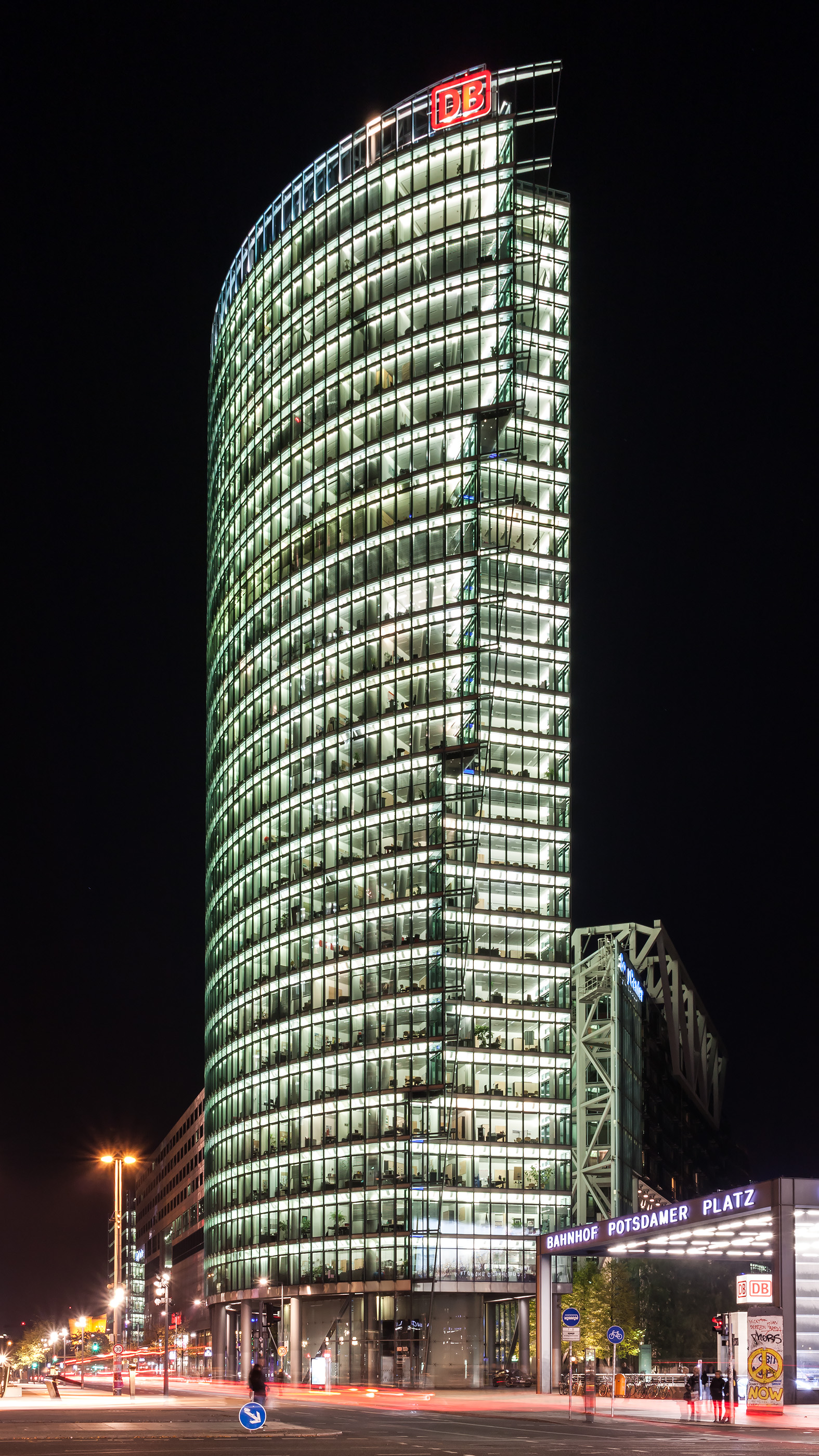 Bahntower, Potsdamer Platz, Berlin, at night. Architect: Helmut Jahn.